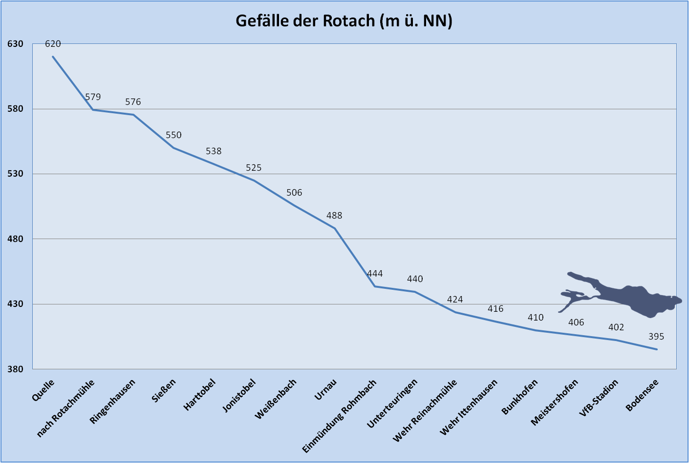 Germany - Baden-Württemberg: diagram 'altitude of river Rotach'